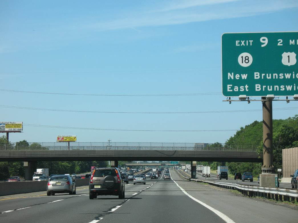 New Jersey Turnpike, southbound, near Exit 9.